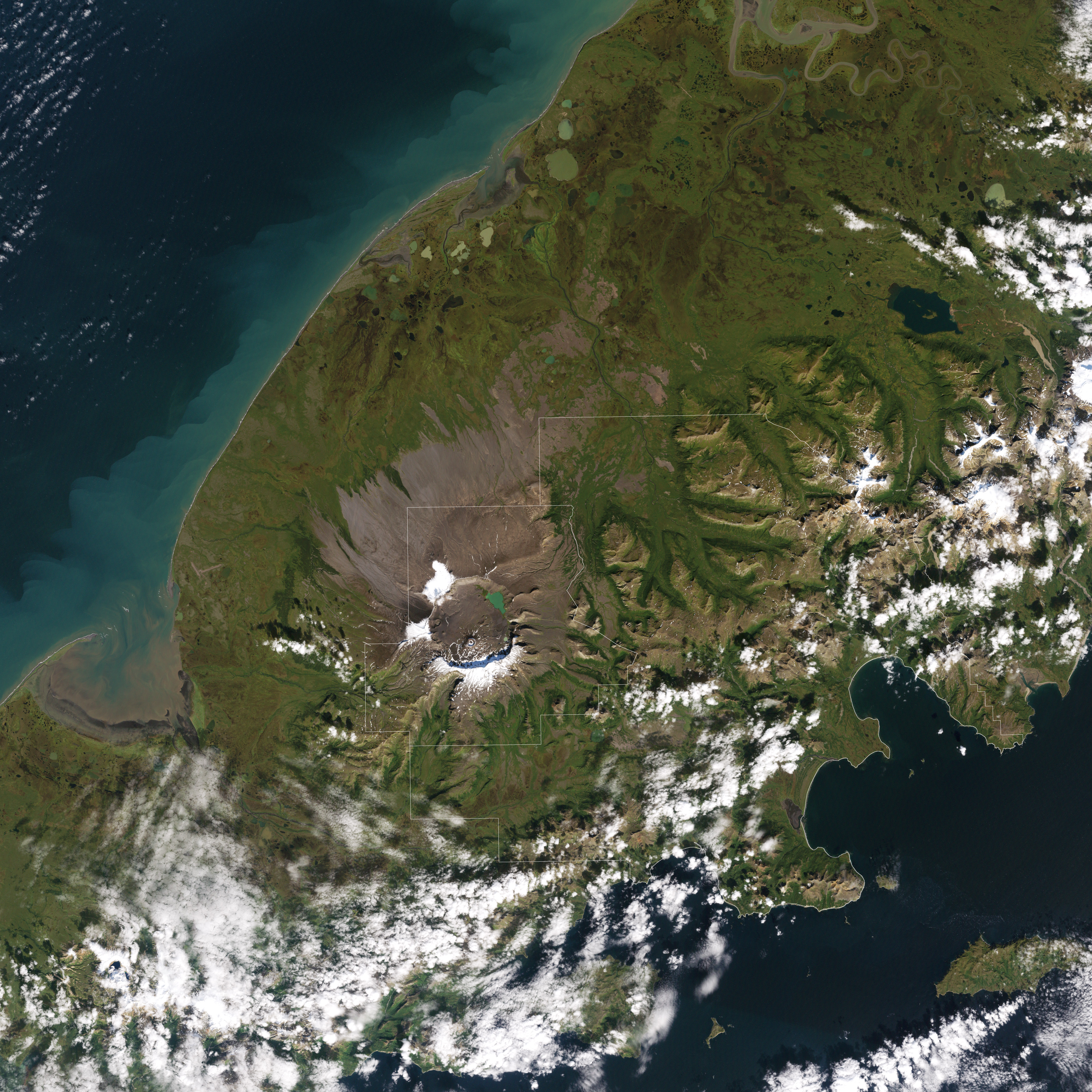 Natural-colour image of Aniakchak National Monument and Preserve. A caldera dominates the view, and the southern rim casts a blue-gray shadow on nearby snow and ice on the slopes. (Because of the angle of sunlight, this image may cause the optical illusion known as relief inversion.) A lake lies near the caldera’s northeastern margin. Vegetation is scarce immediately around the caldera, but slopes are green farther away. Image captured by the Enhanced Thematic Mapper Plus on the Landsat 7 satellite. Landsat data provided by the United States Geological Survey.